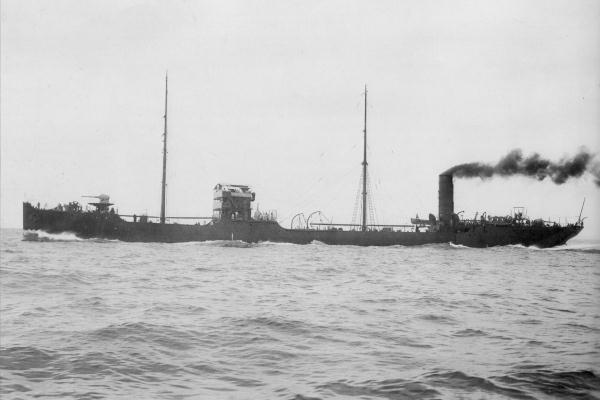 Japanese oiler SUNOSAKI(I) on trial run at Tokyo Bay.